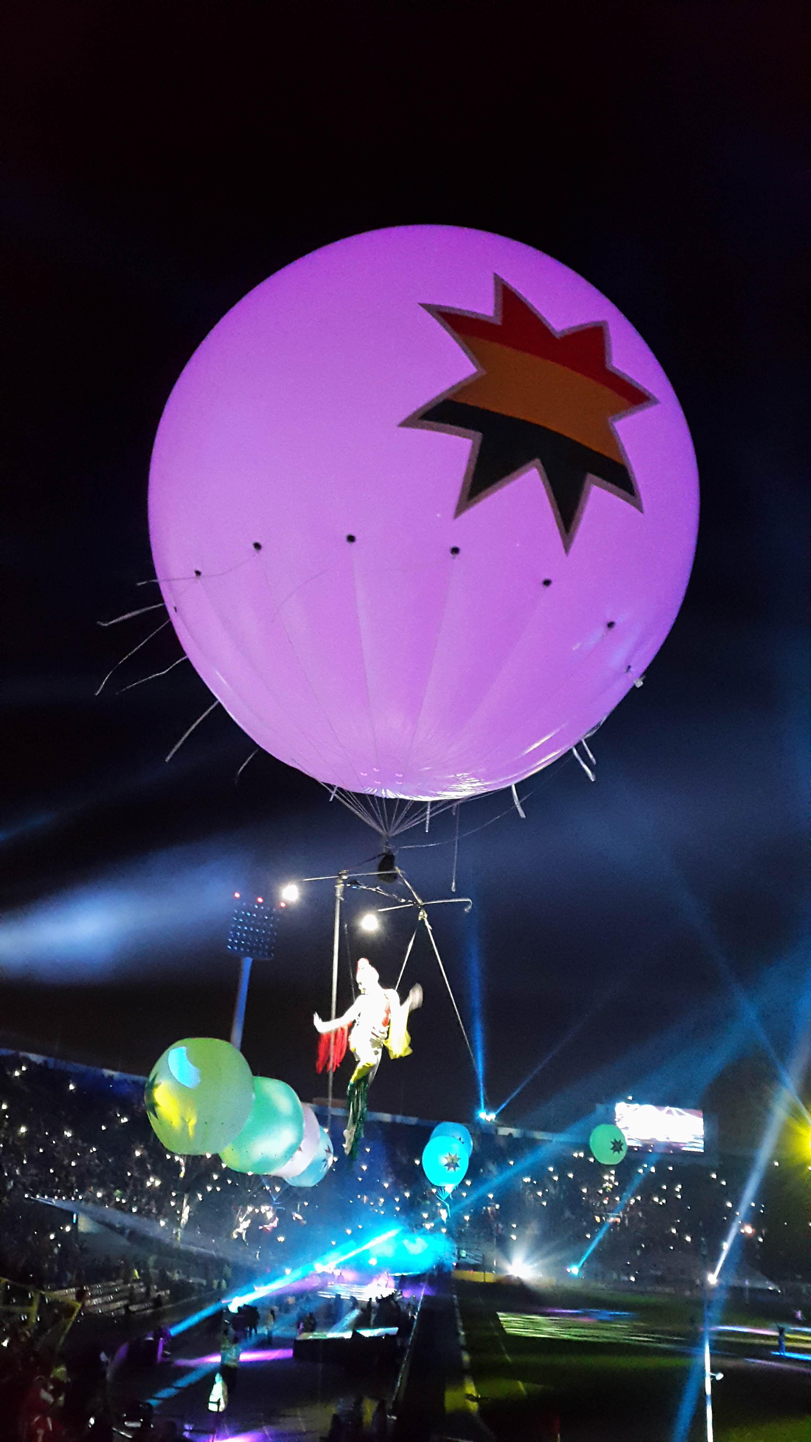 Opening ceremony of the 2015 Copa América, in the National Stadium in Santiago, Chile.